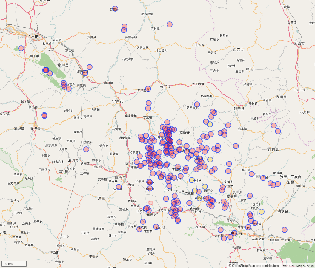 Locations of Buzi in Tianshui and Dingxi 中文（中国大陆）: 堡子在定西市和天水市